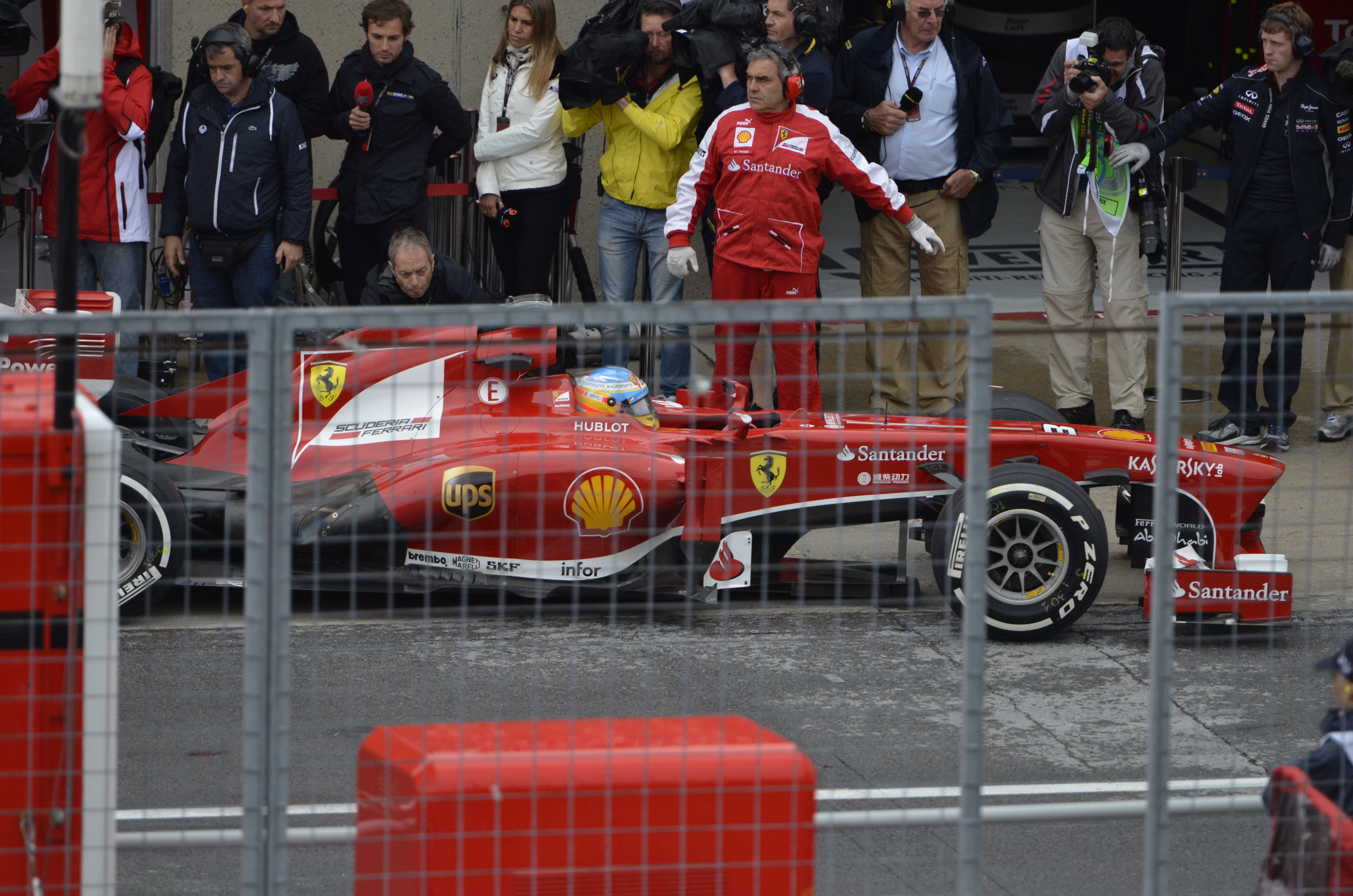 Alonso in the pits during the Canadian GP weekend